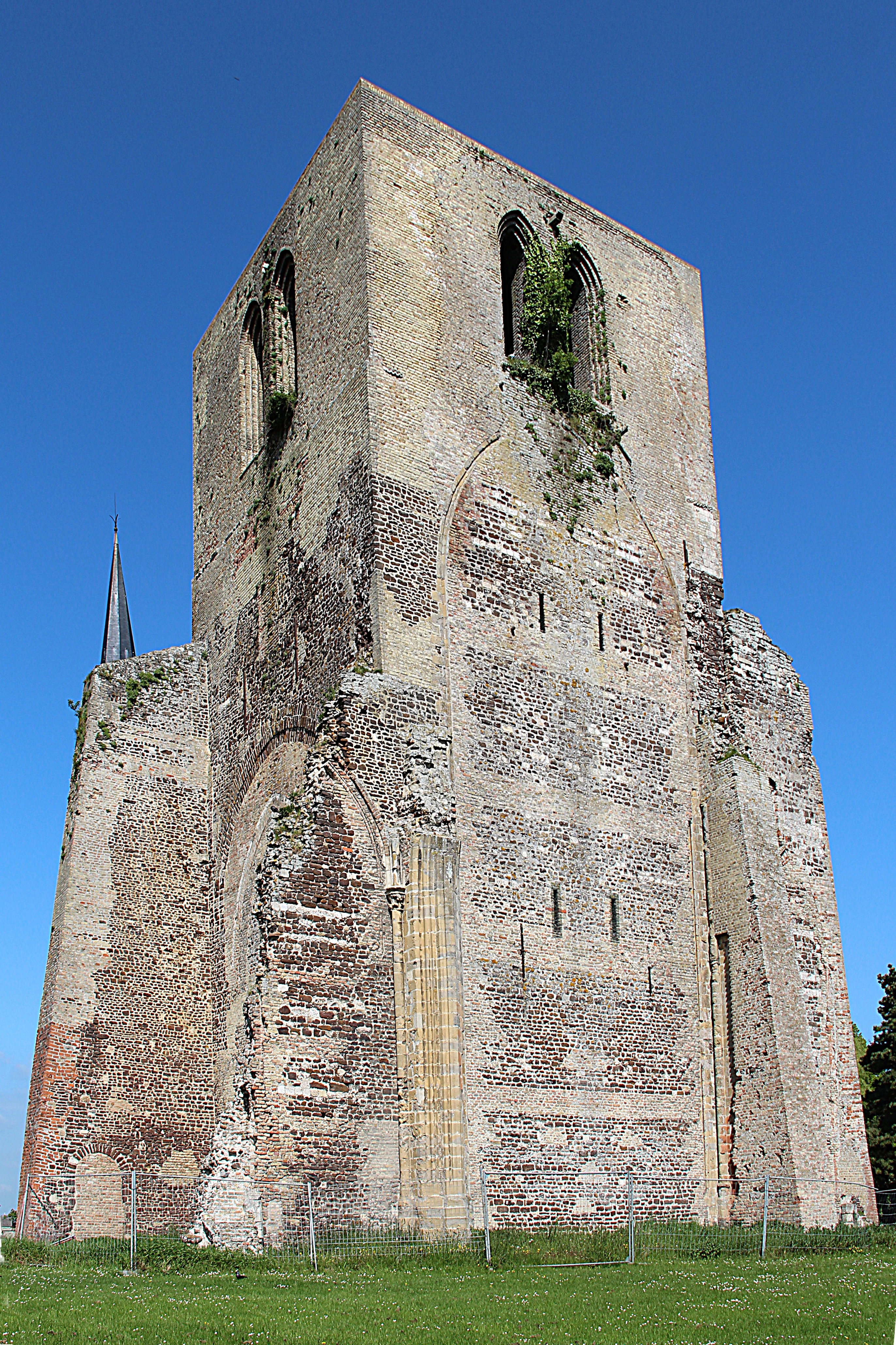 Square tower of the former Saint-Winoc abbey built, destroyed and rebuilt between the 13th and 18th centuries in: Bergues (Nord department, France).